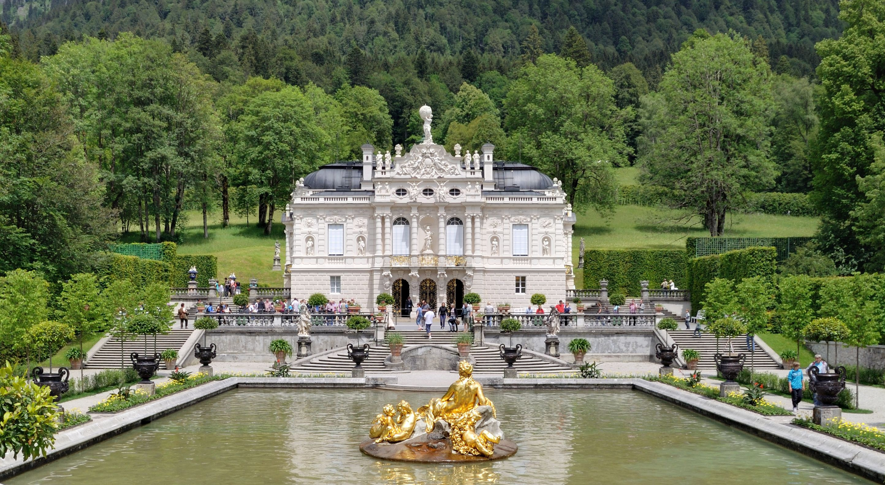 Linderhof Palace